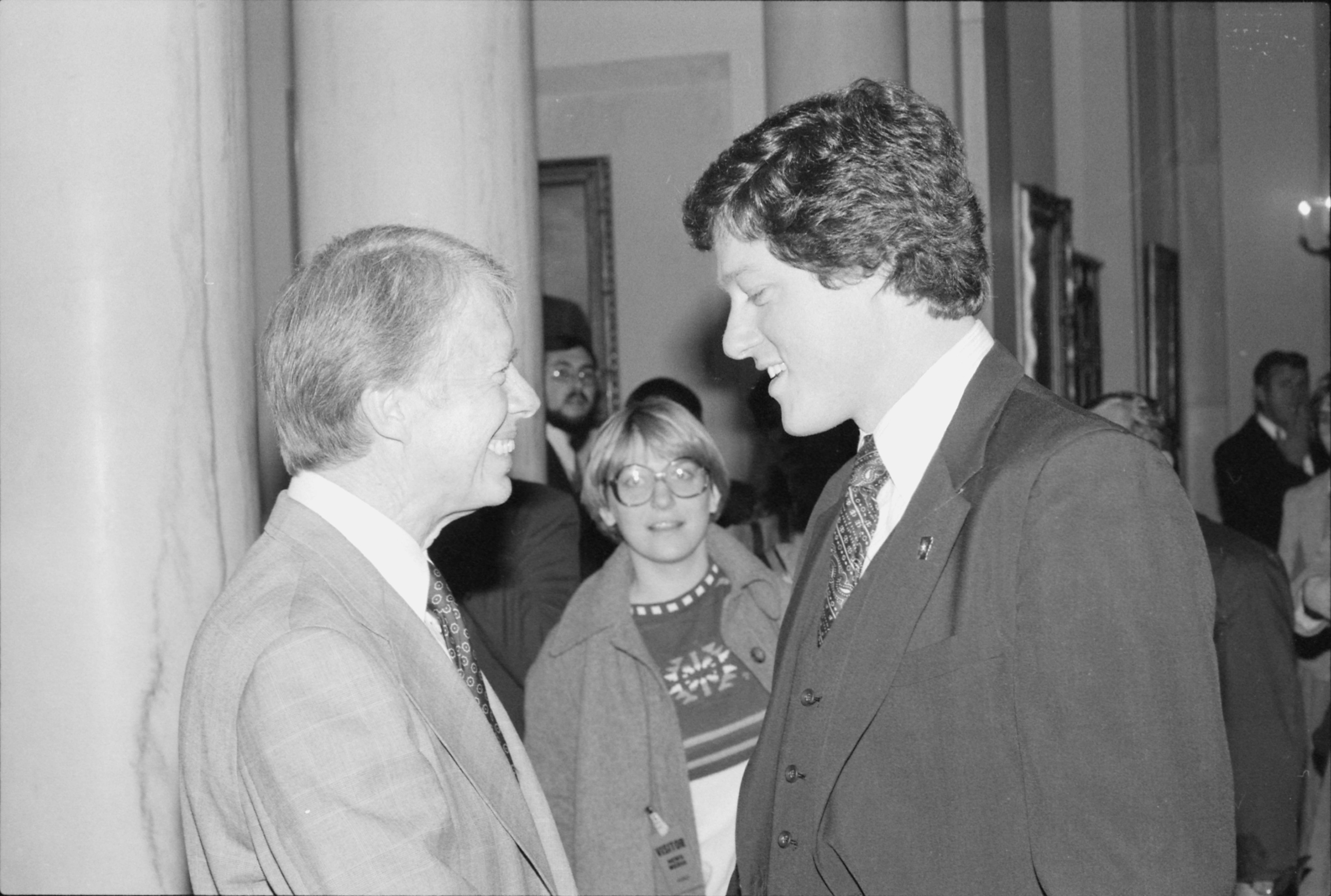 US president Jimmy Carter and Governor-Elect Bill Clinton meet as unidentified bystanders watch the scene.